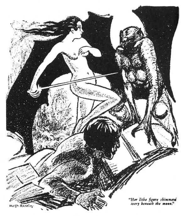 Illustration of a scene in Robert E. Howard's "Queen of the Black Coast": this story and illustration was first published in Weird Tales (May 1934).